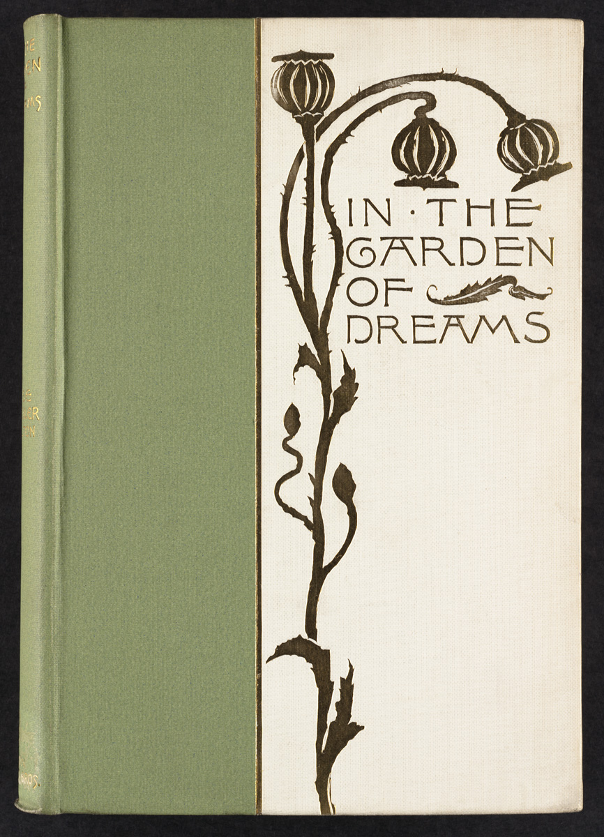 File name: 06_04_000119Title: MOULTON(1890) In the garden of dreams - lyrics and sonnetsDate issued: 1890Genre: Book coversNotes: Moulton, Louise Chandler, 1835-1908 (Author)Collection: Sarah Wyman Whitman BindingsLocation: Boston Public Library, Special CollectionsRights: No known copyright restrictions.